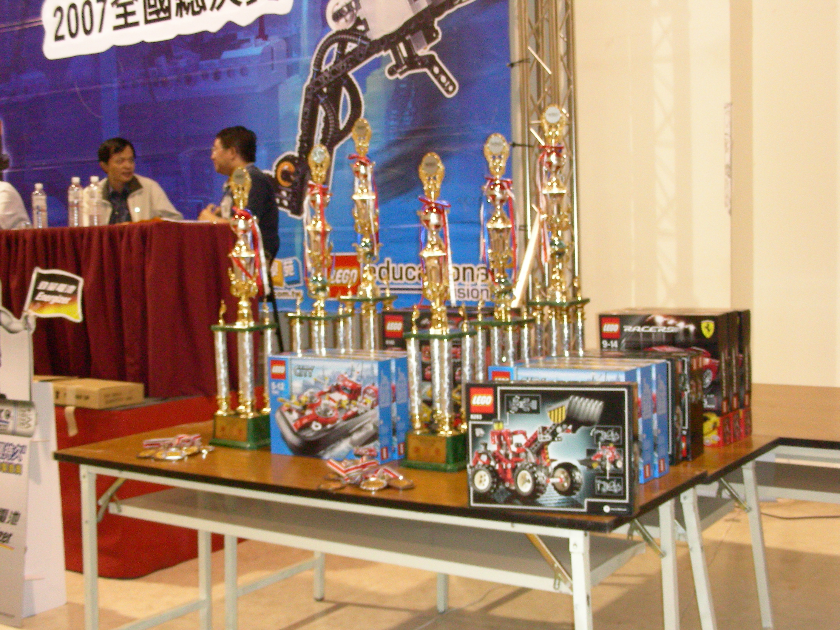 World Robot Olympiad Taiwan heat